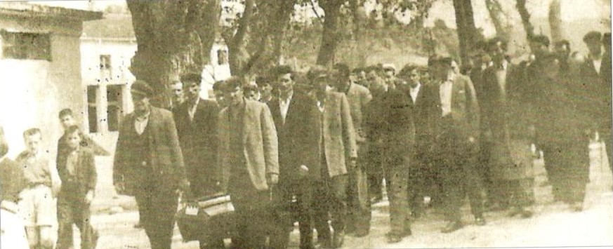 Transfer of the bones of the young people shot in Vatasha (1943) to the memorial grave